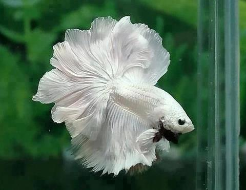 Betta splendens, white male.